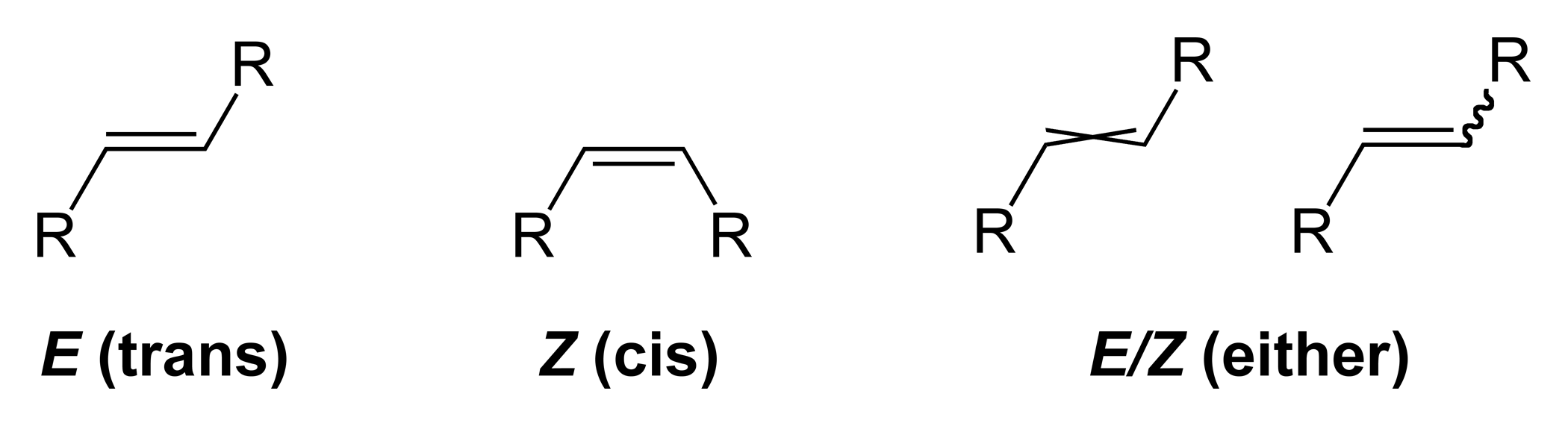 Skeletal formulae showing how the stereochemistry of alkenes is depicted.